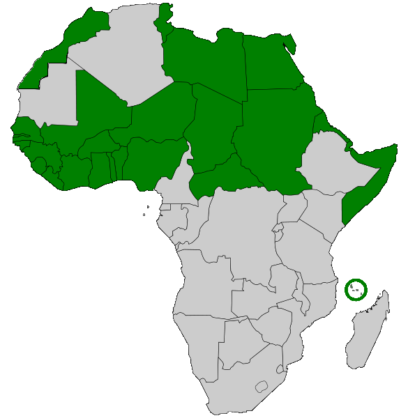 Community_of_Sahel-Saharan_States